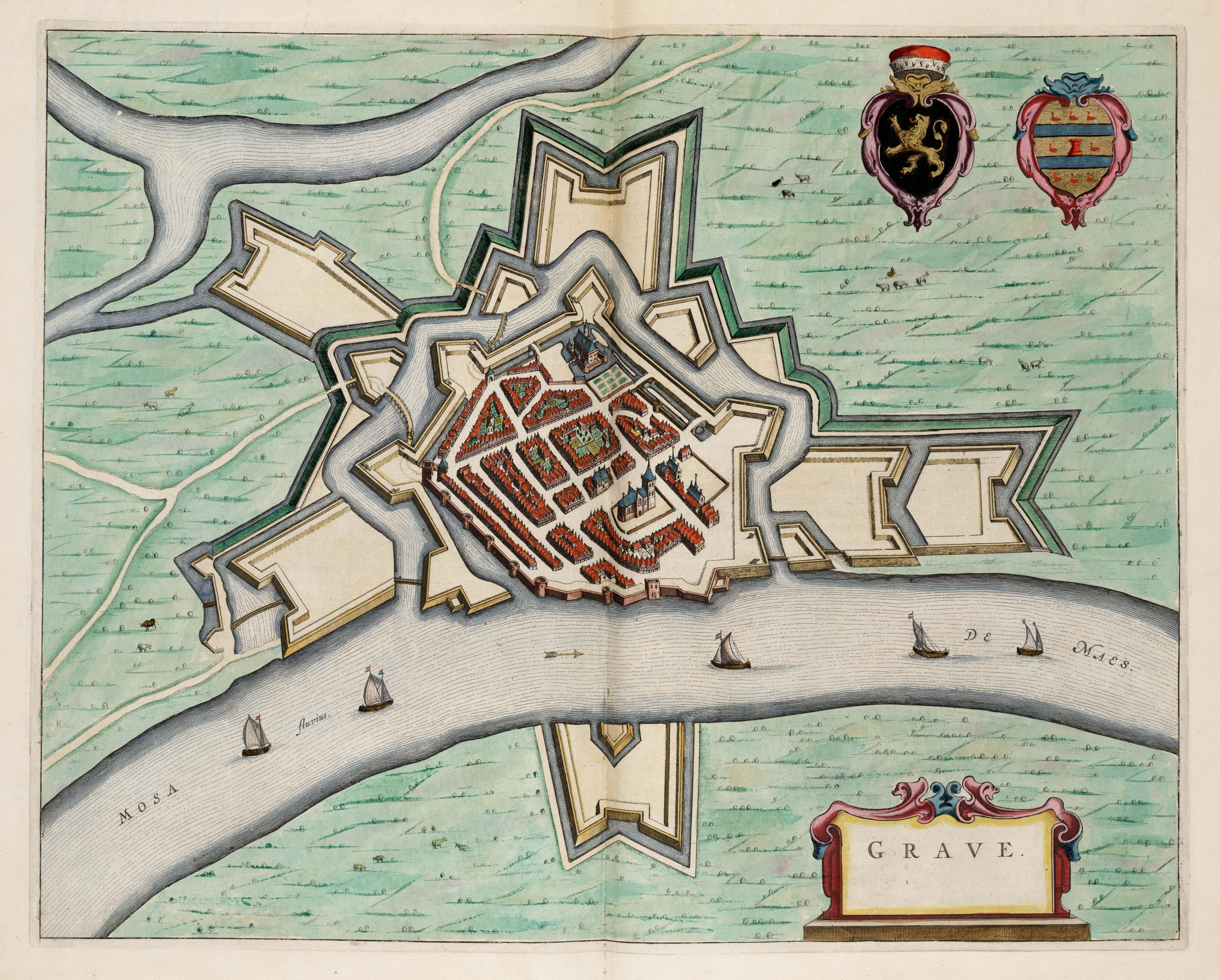 Grave, a city in the Netherlands